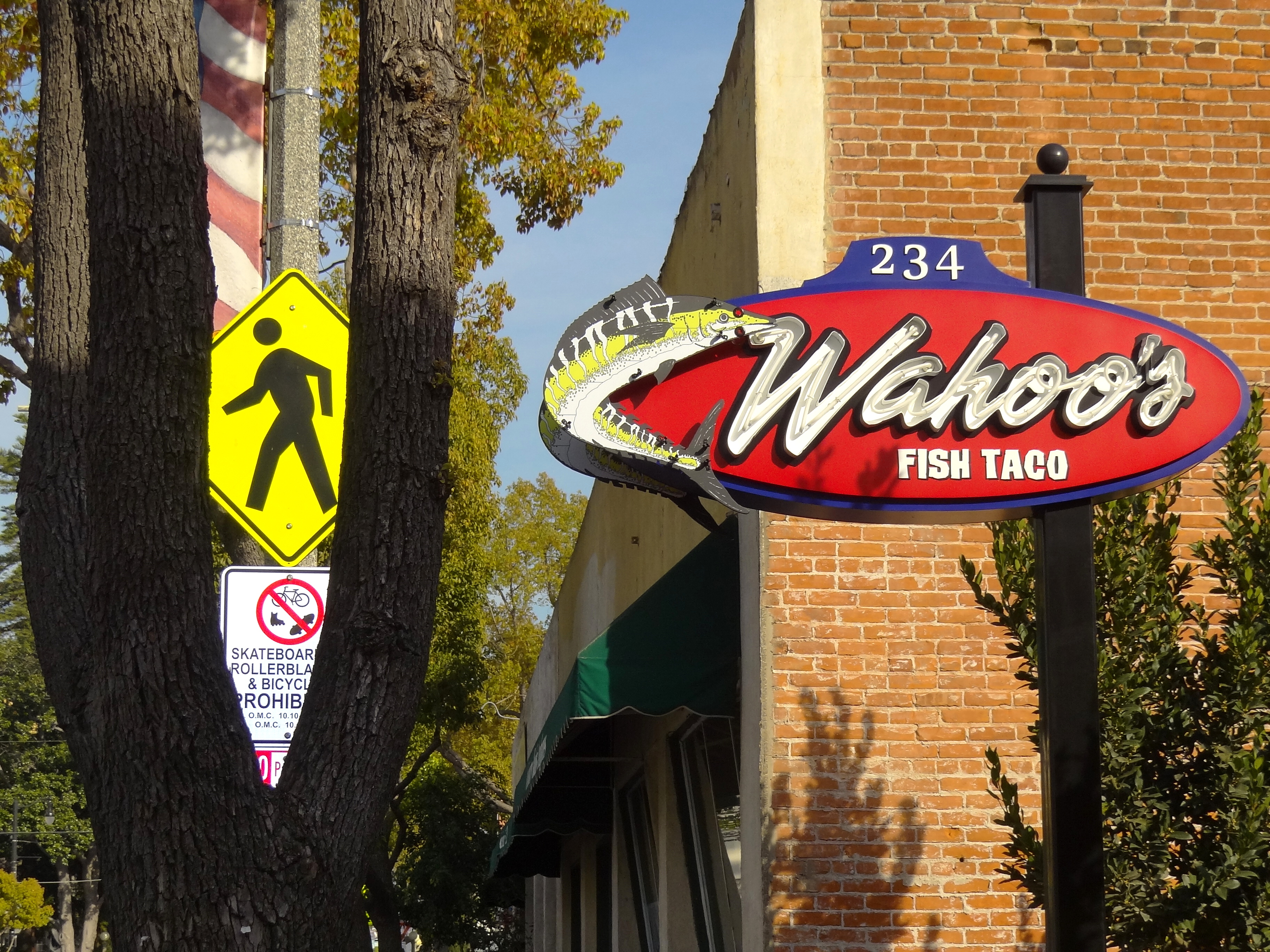 Wahoo's Fish Taco Restaurant Sign & Street Scene - Orange - California - USA